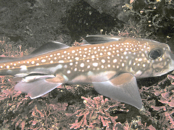 Ratfish, Bischoff Island, British Columbia, Canada.